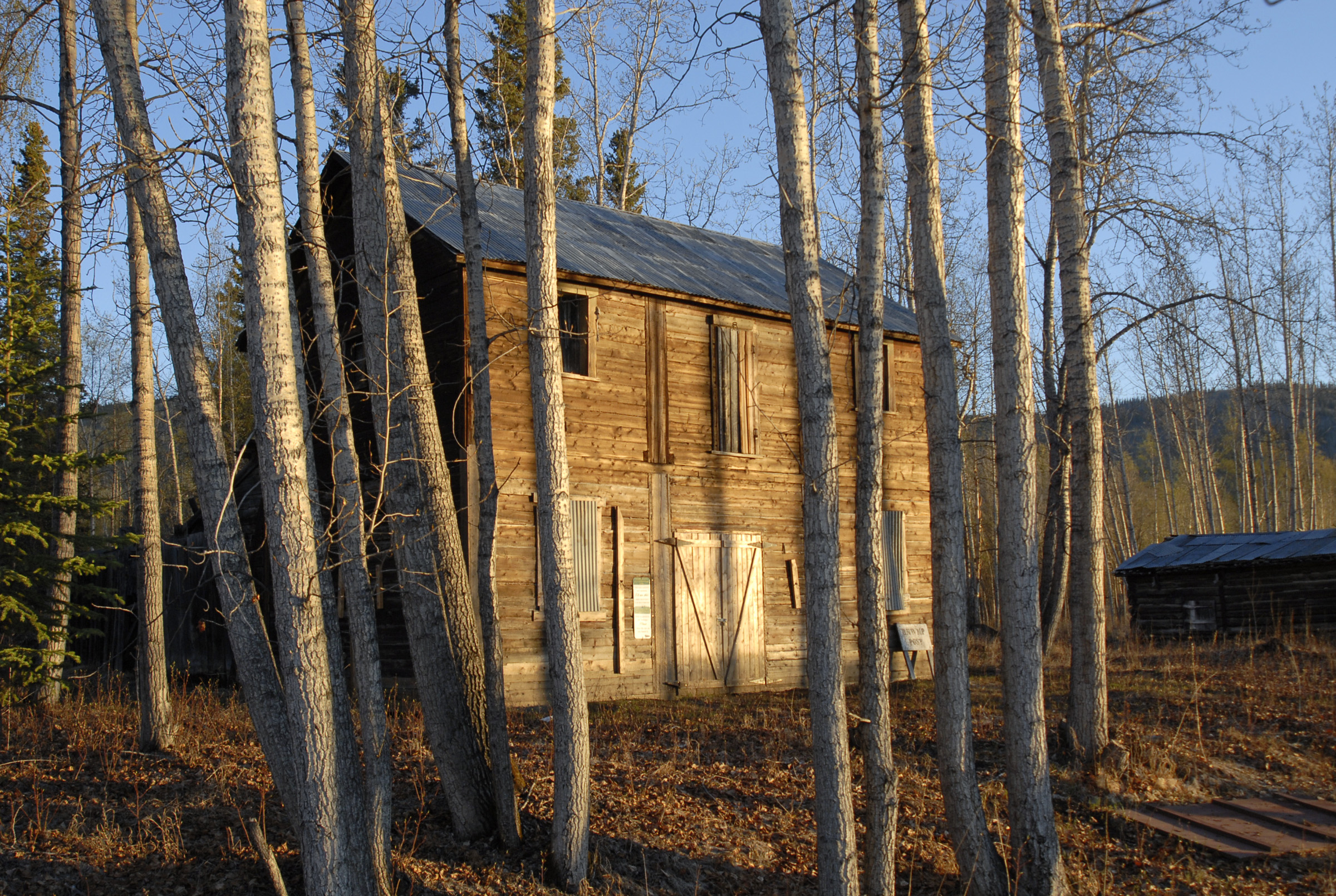 An image of the Royal North-West Mounted Police building at Forty Mile historic site, Yukon, Canada.